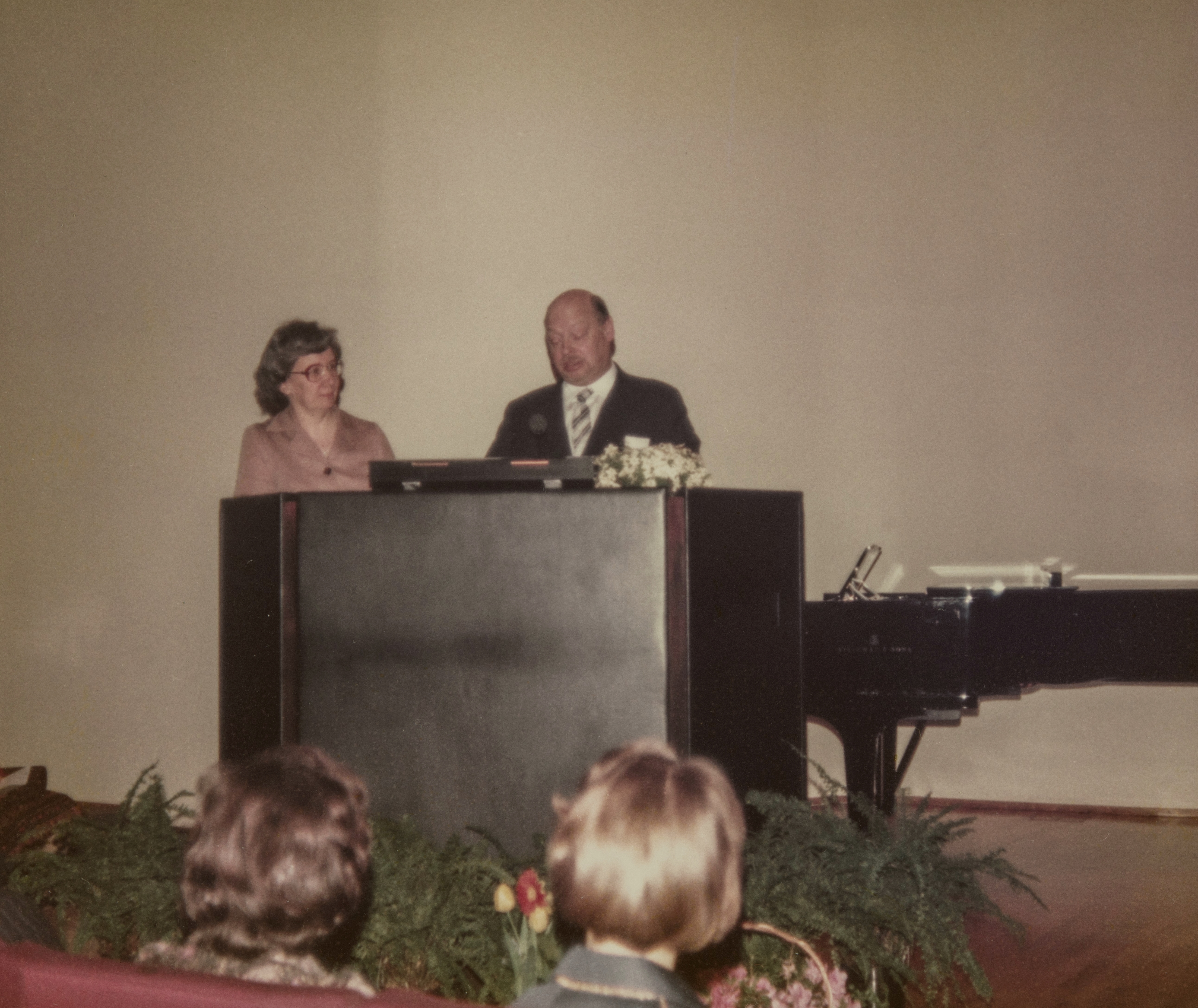 Photograph of the Finnish psychiatrist Toivo A. Pitkänen (1919–1991) speaking in Finlandia Hall at the 50th anniversary of Mental Heath Finland organization. To his left, the physician M.-L. Vauhkonen.